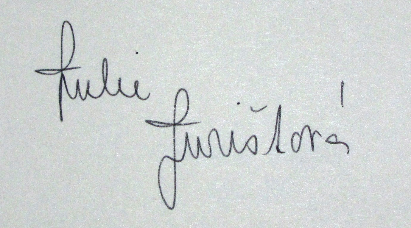 Signature of Julie Jurištová, Czech actress (1984)